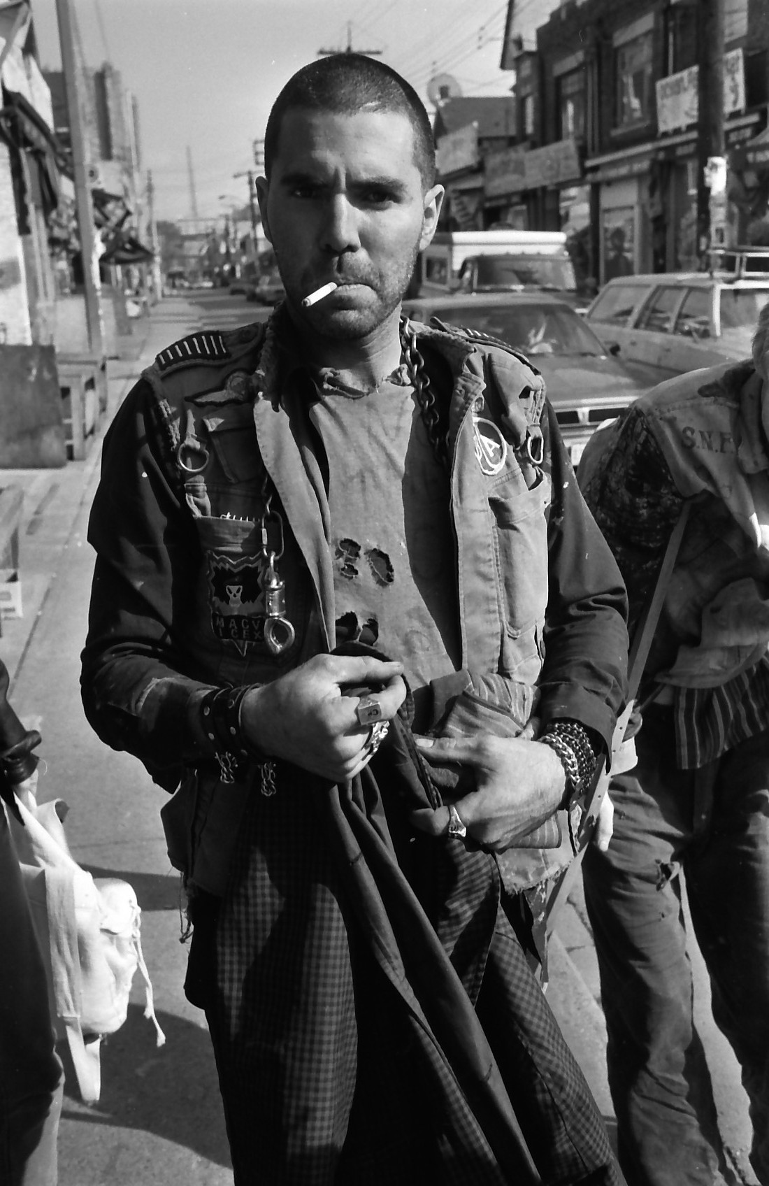 Crazy Steve Goof of punk band bunchofuckingoofs in Kensington Market, Toronto, October 23, 1988